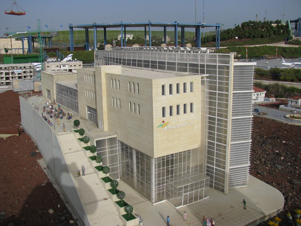 Givatayim Mall